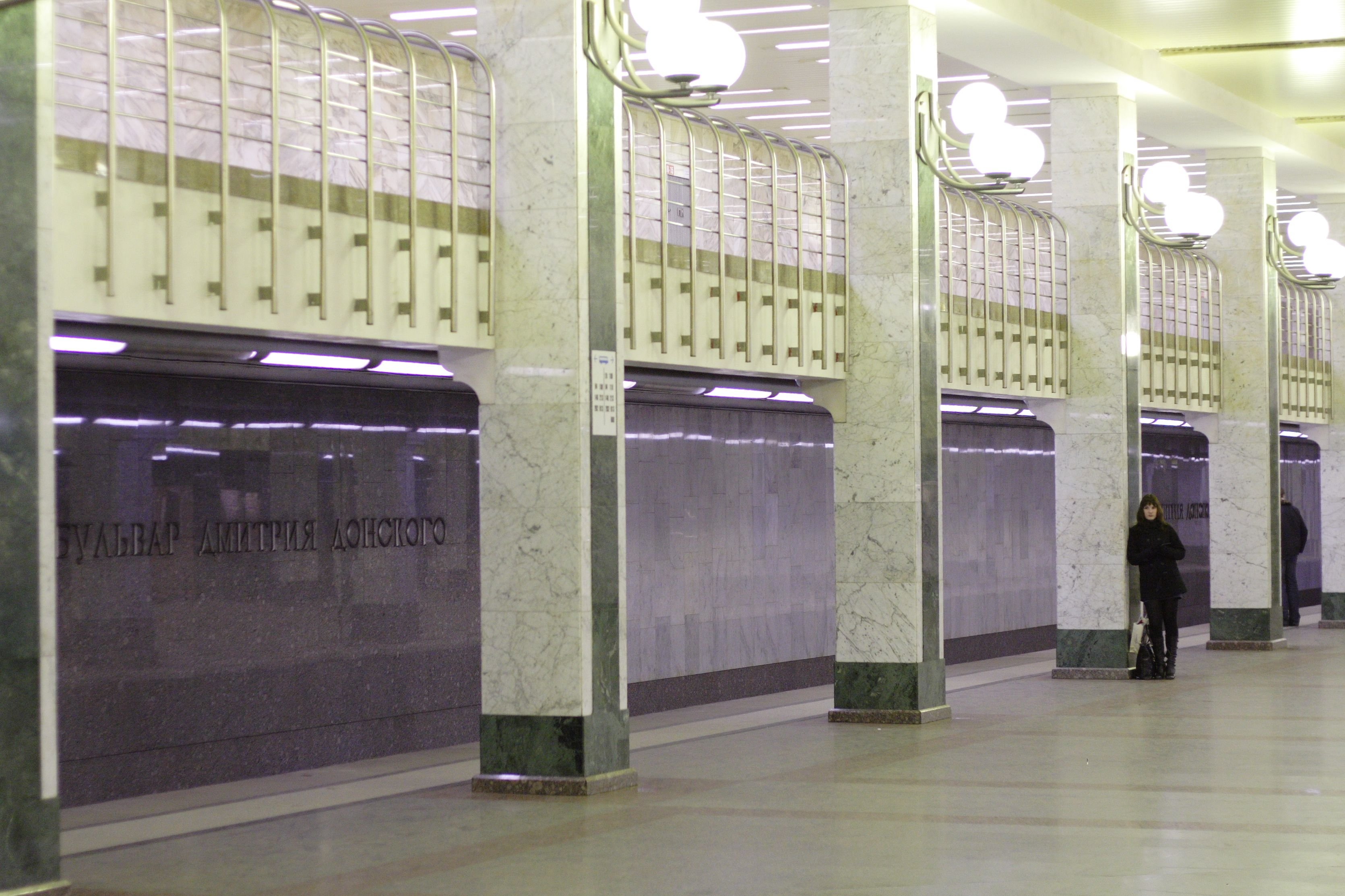 Subway station "Bulvar Dmitriya Donskogo" in Moscow